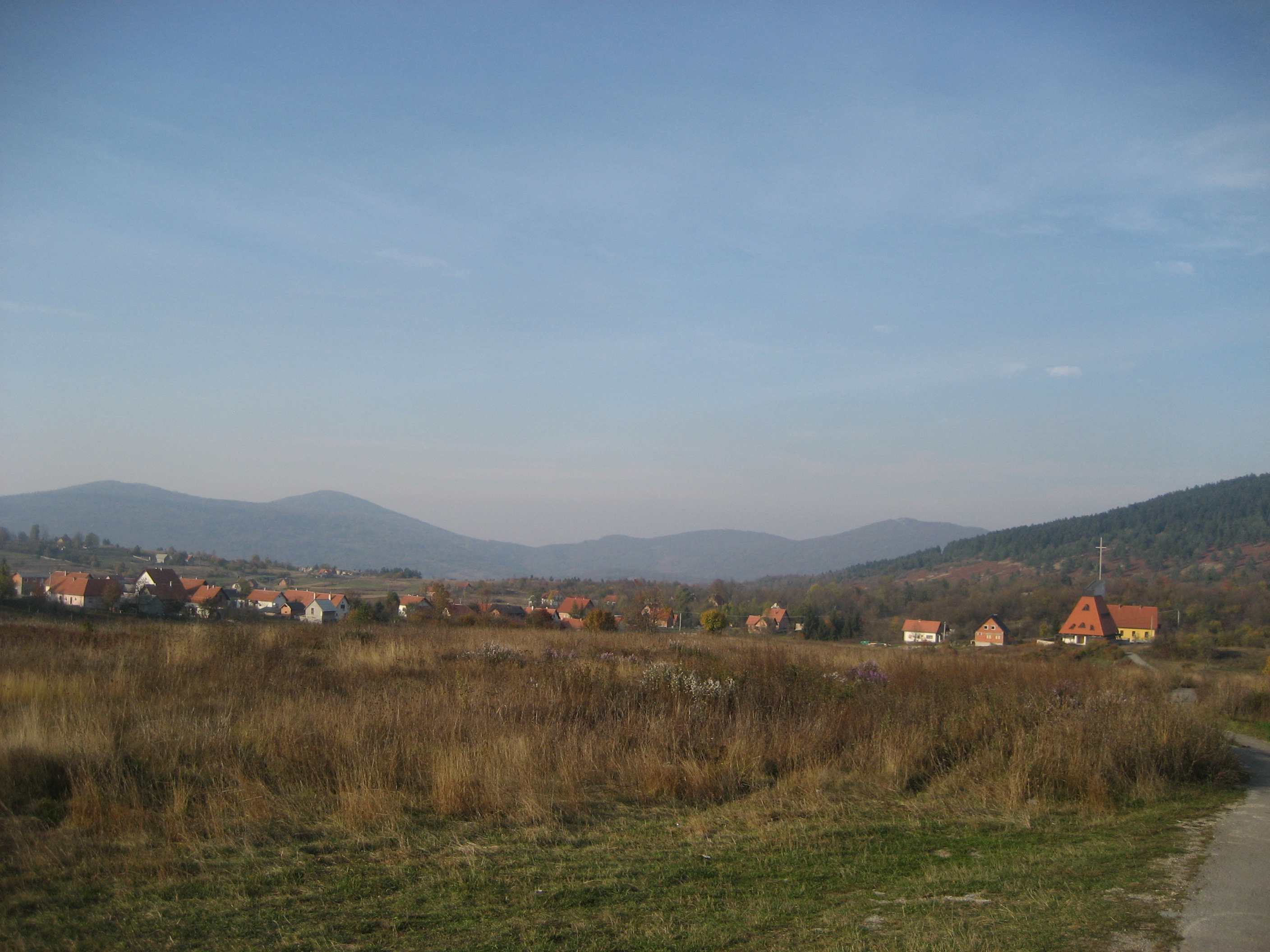 Village of Saborsko